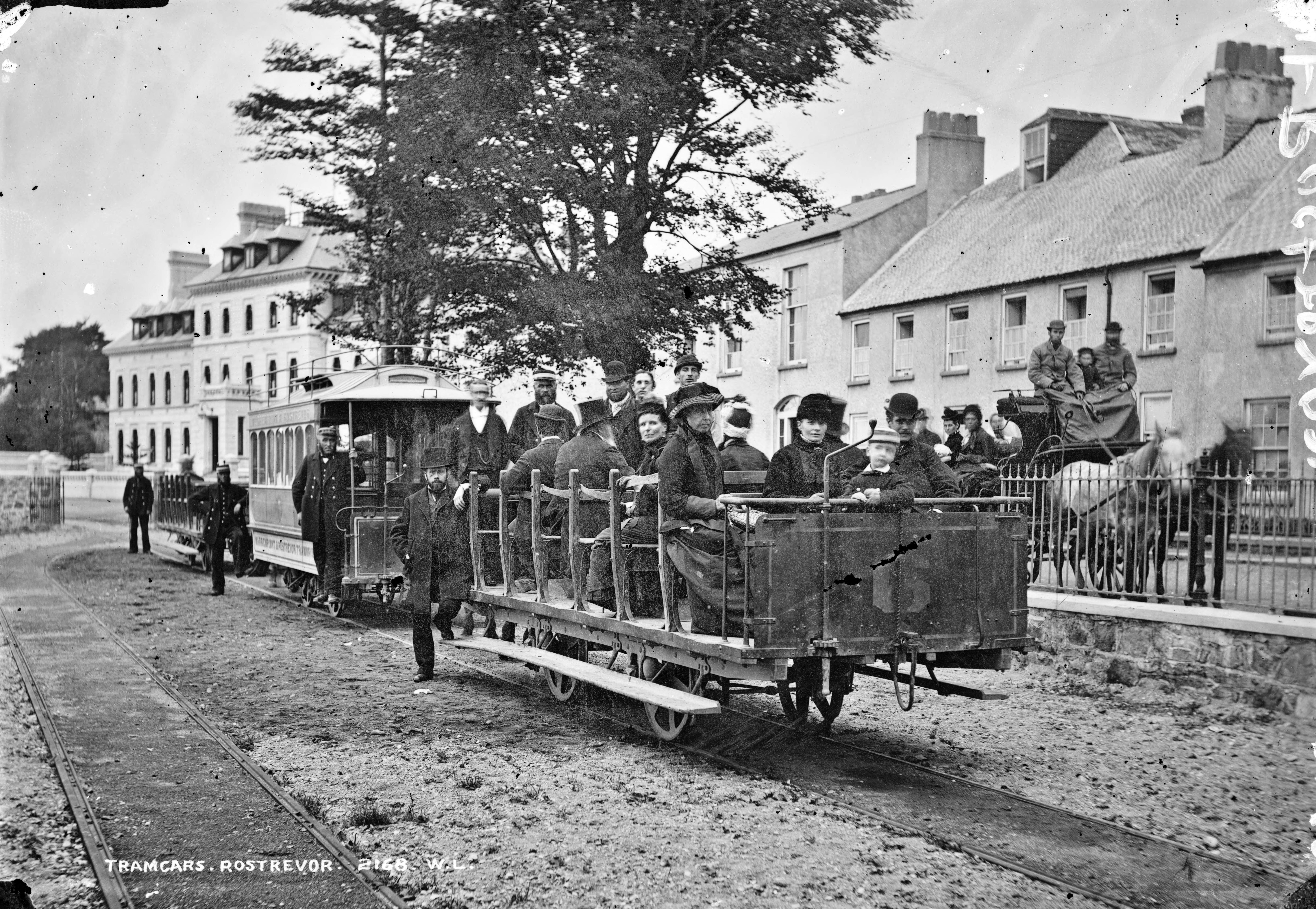 NLI Ref.: L_CAB_02168